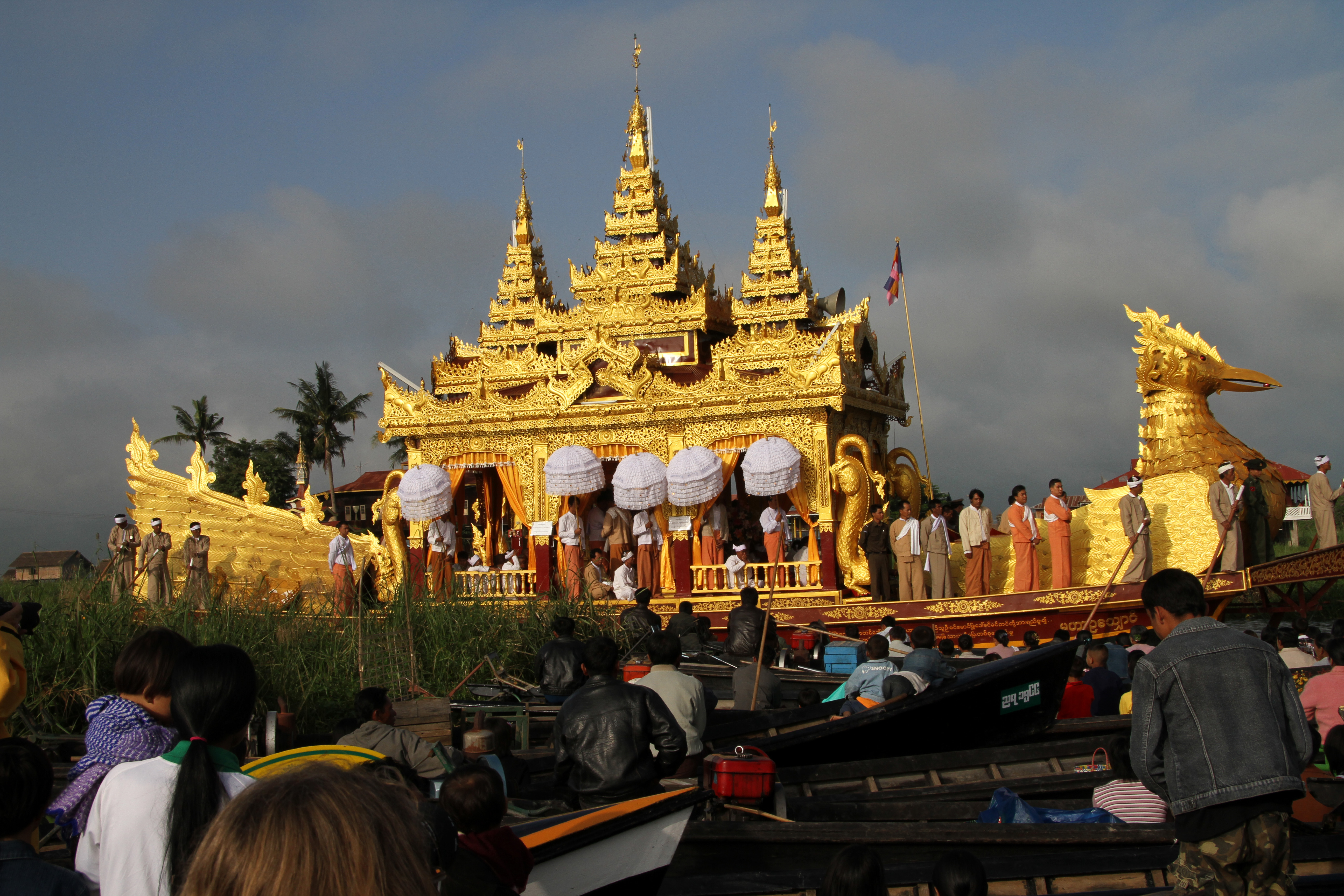 Phaung Daw U-Festival, Royal Barque, Inle lake, Myanmar.